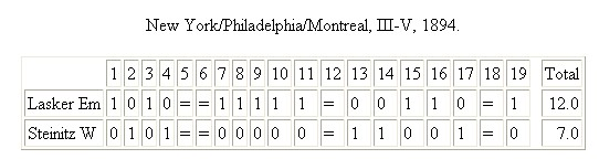 World Chess Championship 1894 Lasker - Steinitz Title Match